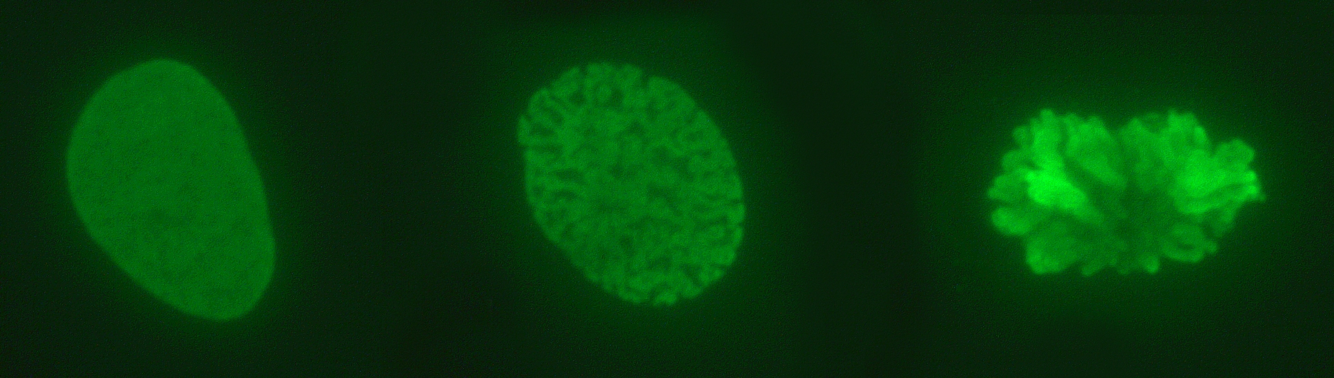 Condensing chromosomes. Interphase nucleus (left), condensing chromosomes (middle) and condensed chromosomes (right). Produced using anti-dsDNA antibodies on HEp-20-10 cells with a FITC conjugate.